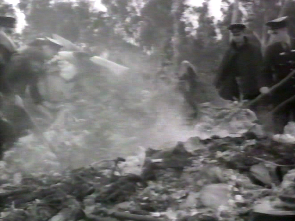 Screenshot of newsreel footage of Skymaster air crash near Perth, Western australia on 26 June 1950